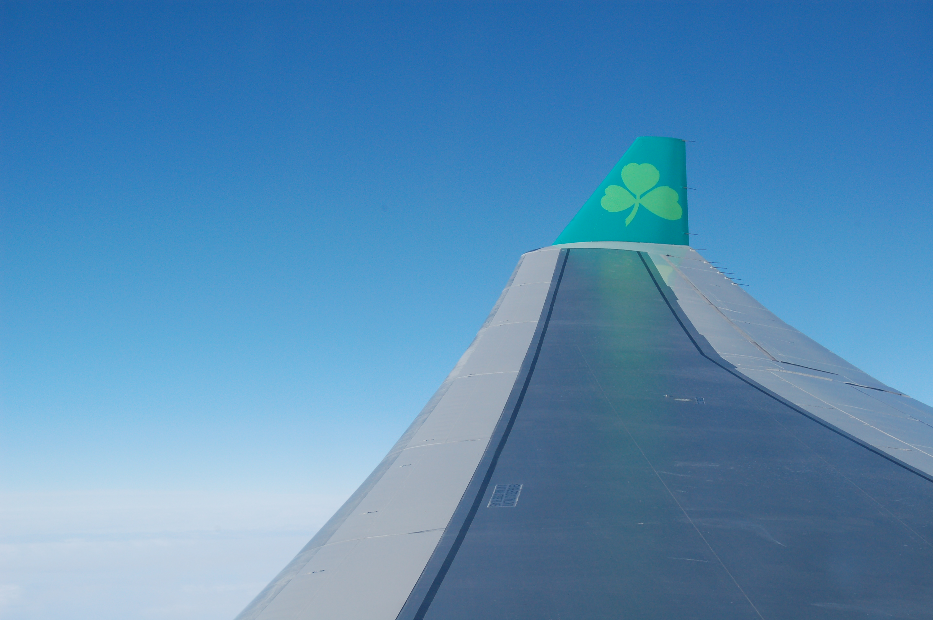 The Aer Lingus logo on the wing of an Airbus 330.